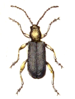 Orsodacne cerasi, from Calwer's Käferbuch, Table 42, Picture 6. Taxonomy was updated to 2008, using mostly the sites Fauna Europaea and BioLib. Please contact Sarefo if the determination is wrong!